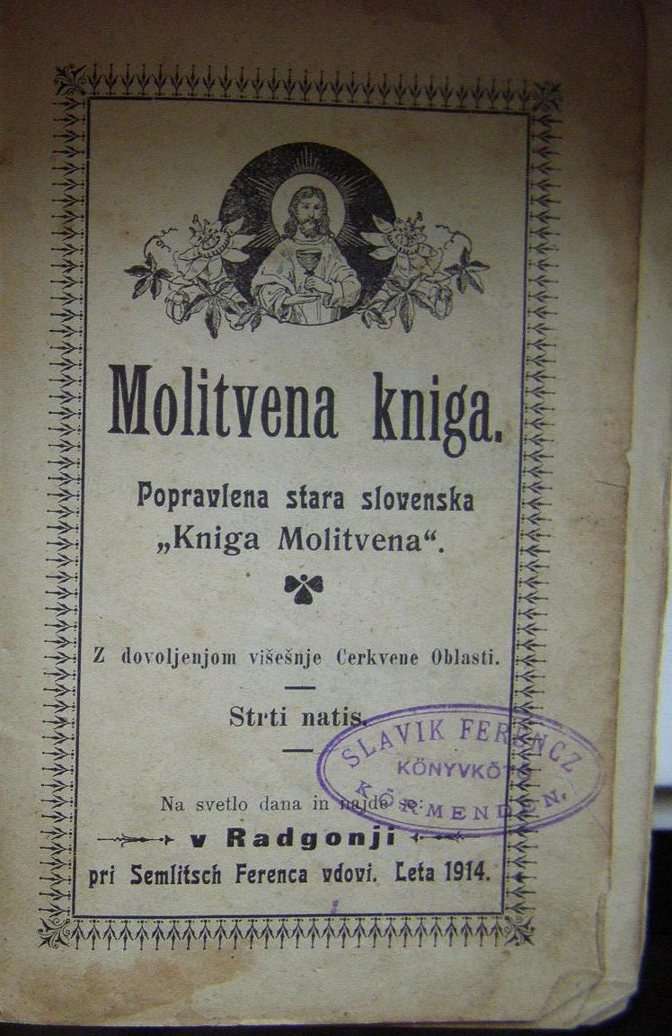 Molitvena kniga, prekmurian prayer-book, by József Szakovics (1874-1930) in 1914